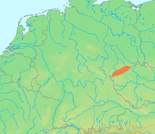 Locator maps for mountain ranges : Location Erzgebirge.PNG